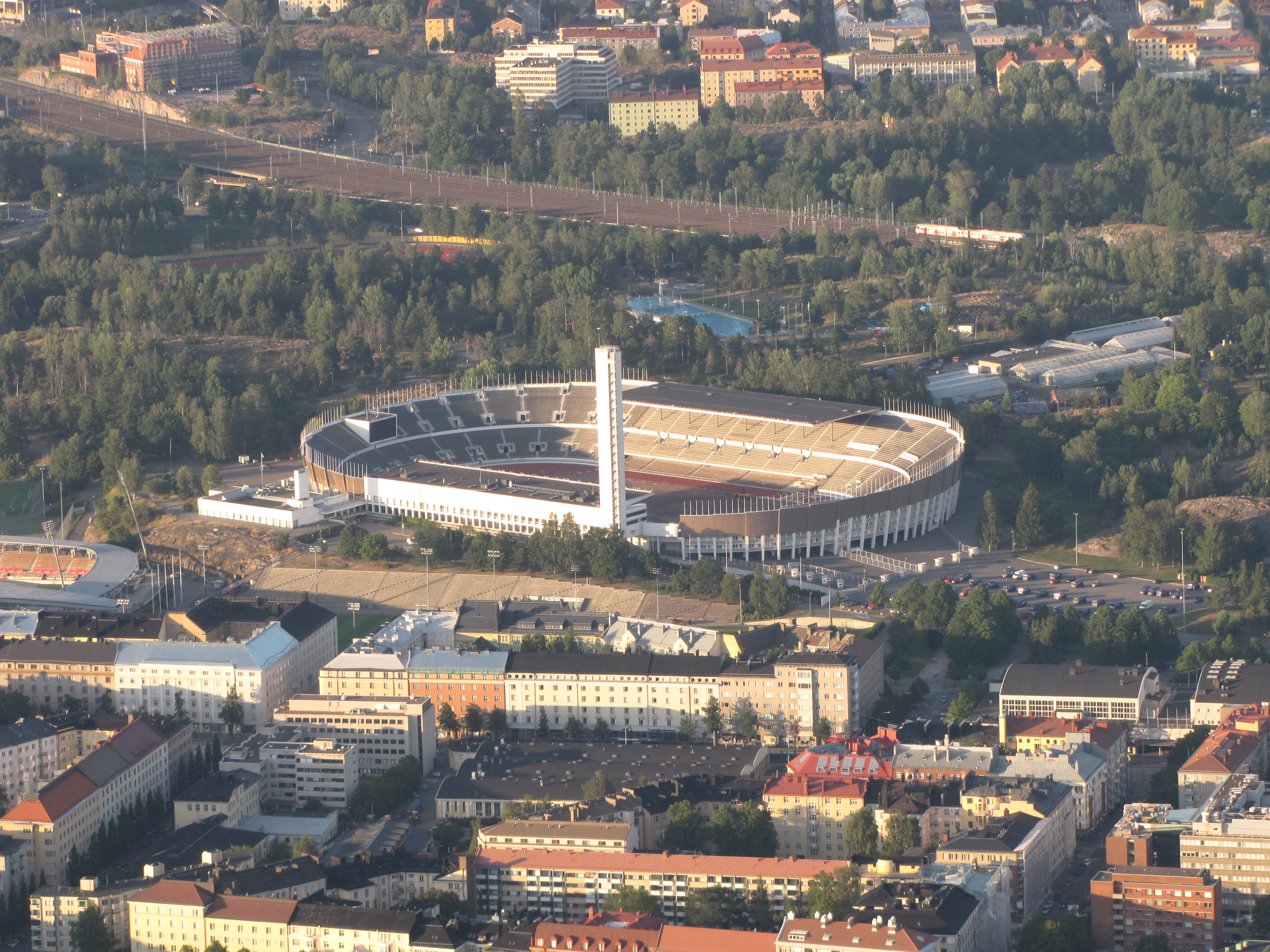 Helsinki Olympic Stadium photographed from a hot air balloon.